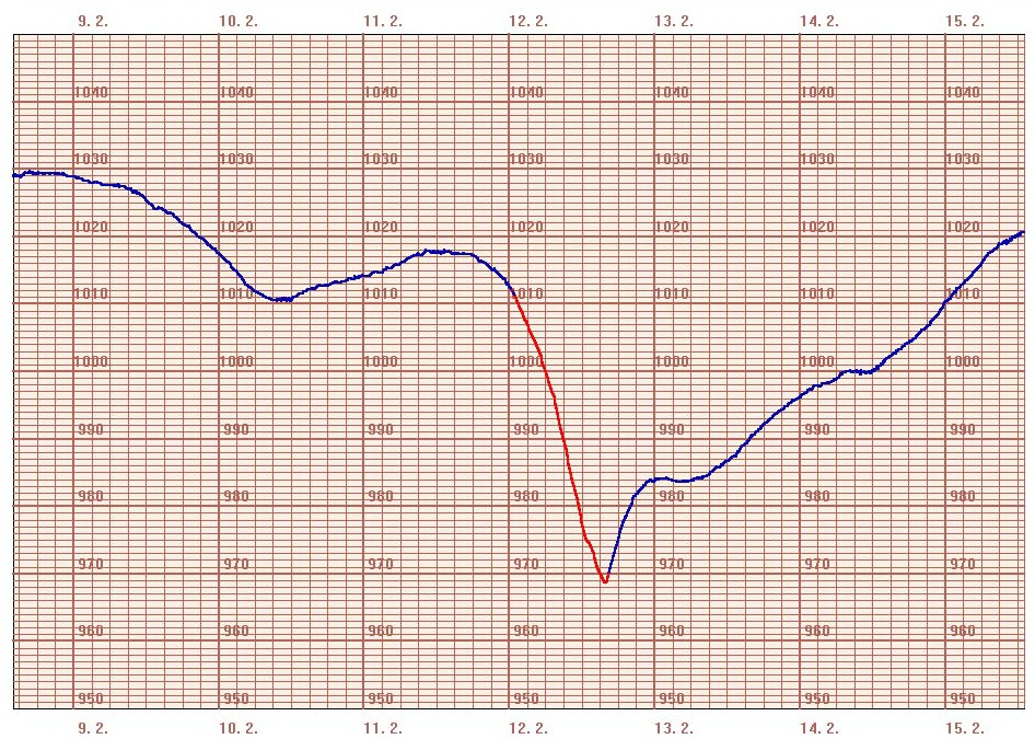 Barogram: heavy storm over northern Germany.